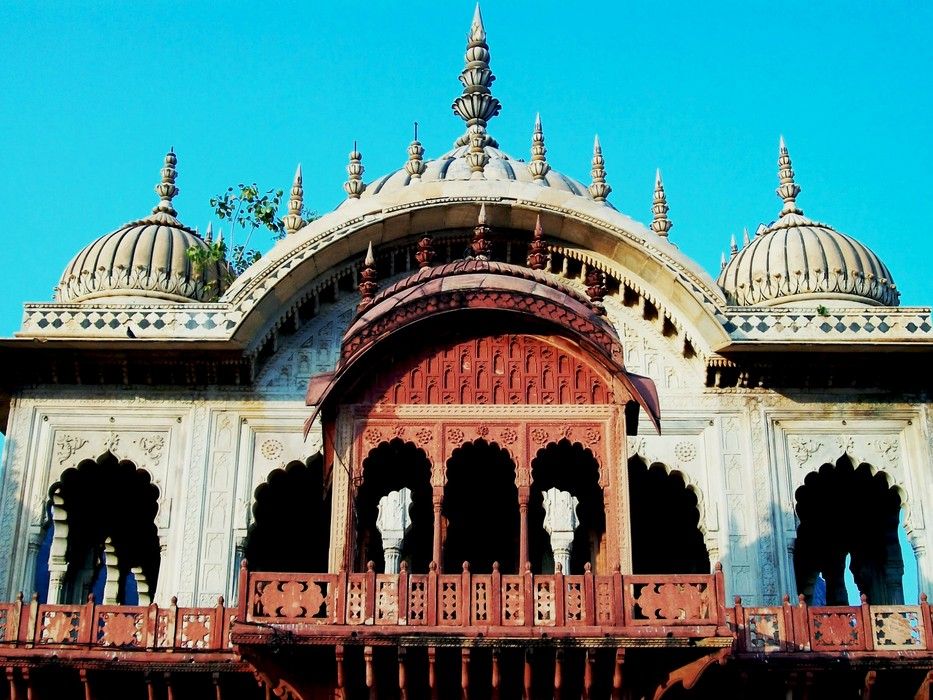 Cenotaph of Musi Maharani